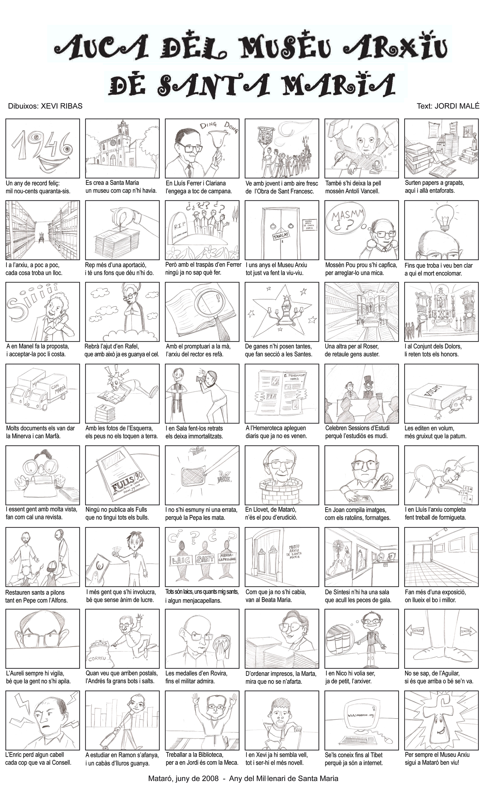 "Auca" created to celebrate the thousandth anniversary of the Basilica of Santa Maria de Mataró.